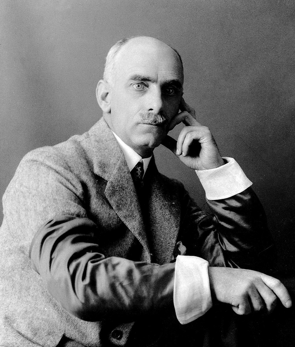 Sir Thomas Lewis (cardiologist)